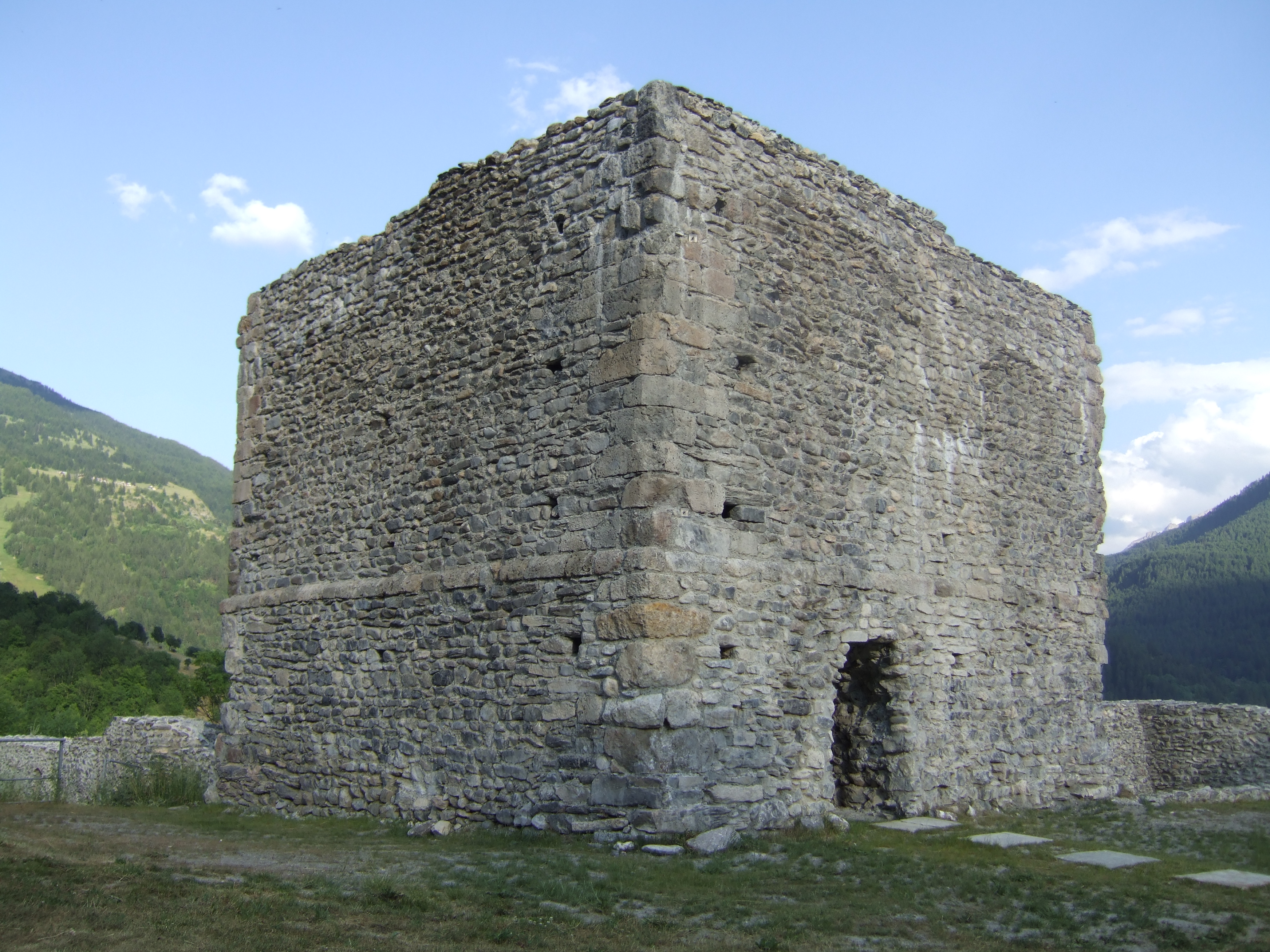 Tour d'Amont: Remain of the ancient fortress of the de Bardonnèche family